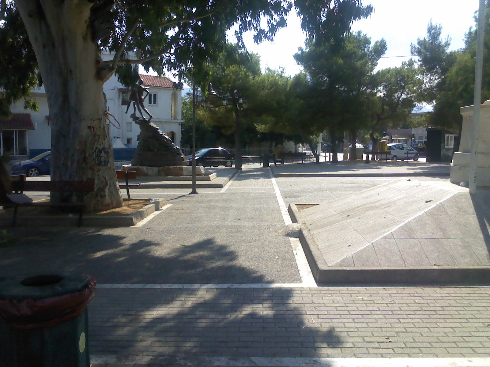 Square of Agios Panteleimon in Marathon